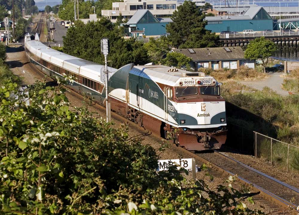 This is the morning Amtrak Cascades train leaving Edmonds heading north. It is one of the Talgo trainsets Amtrak owns.